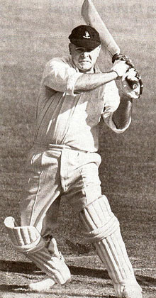 Dudley Nourse, a member of the South Africa cricket team